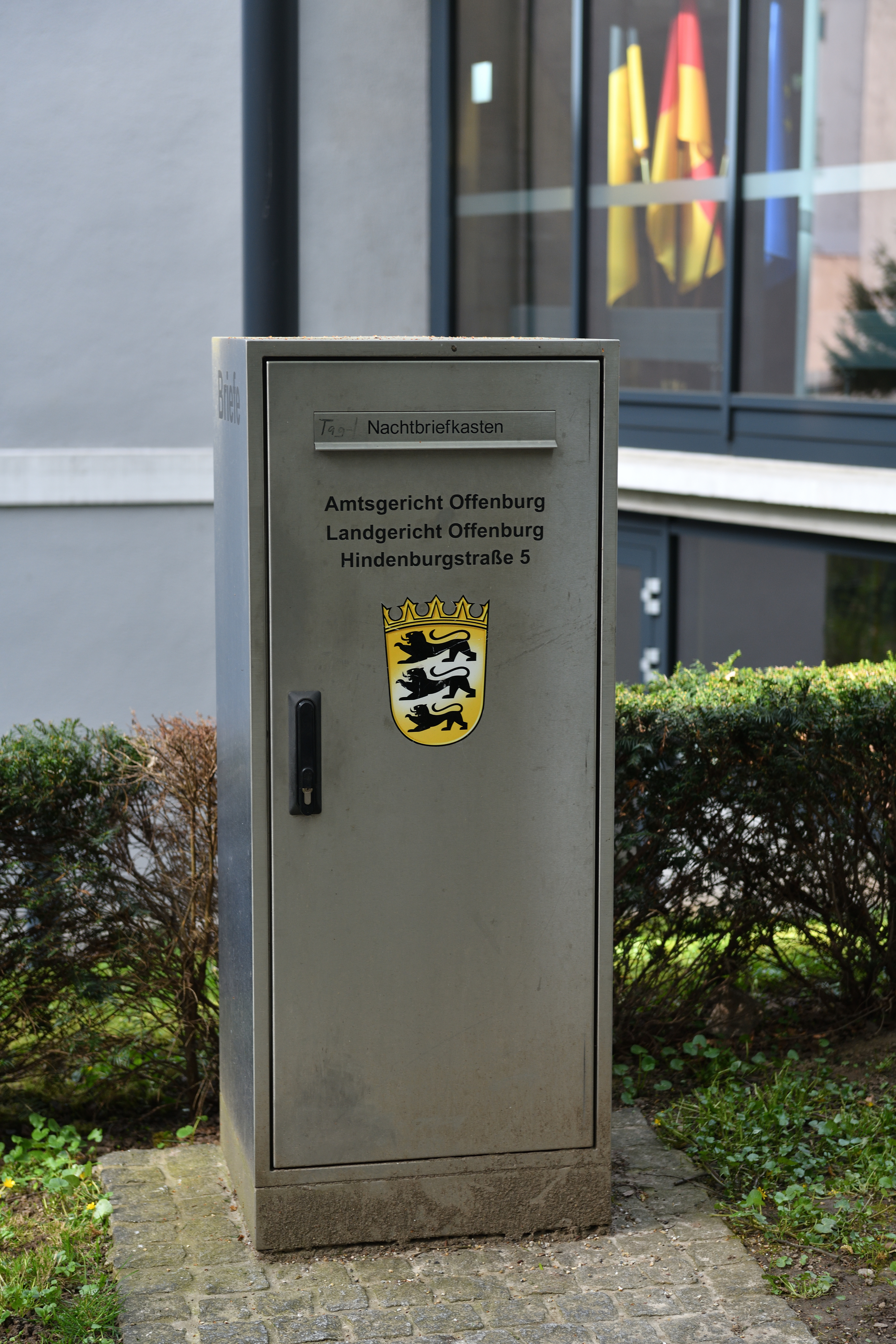 Offenburg: court